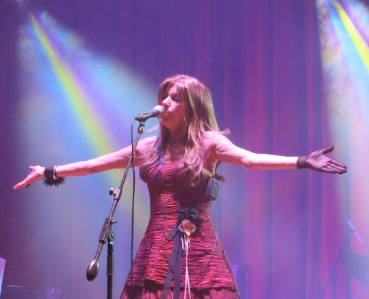 Jeanette´s concert (Arequipa city 2014)